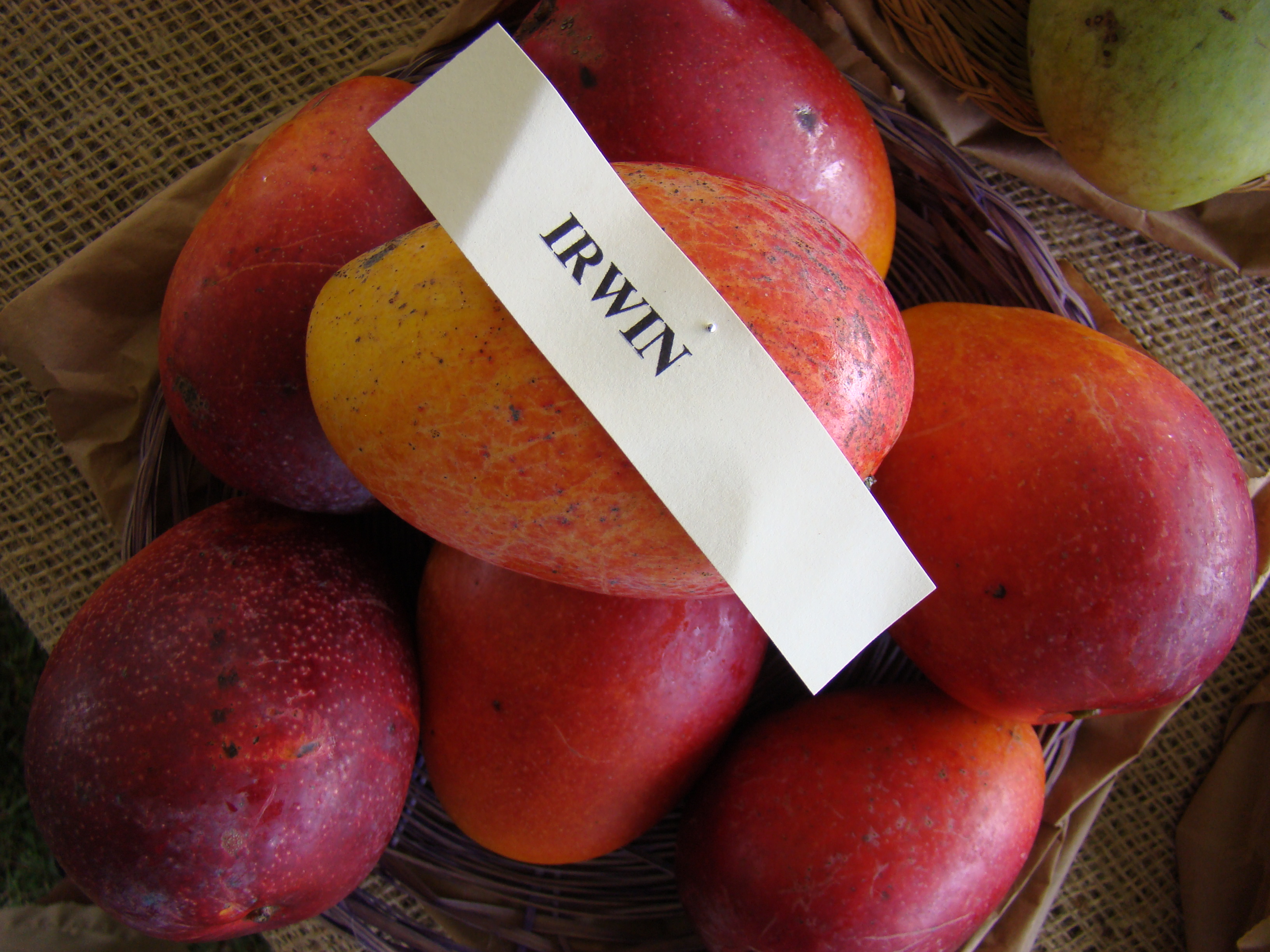 This is a photo of the display of Irwin mango at the Redland Summer Fruit Festival, Fruit & Spice Park, Homestead, Florida.